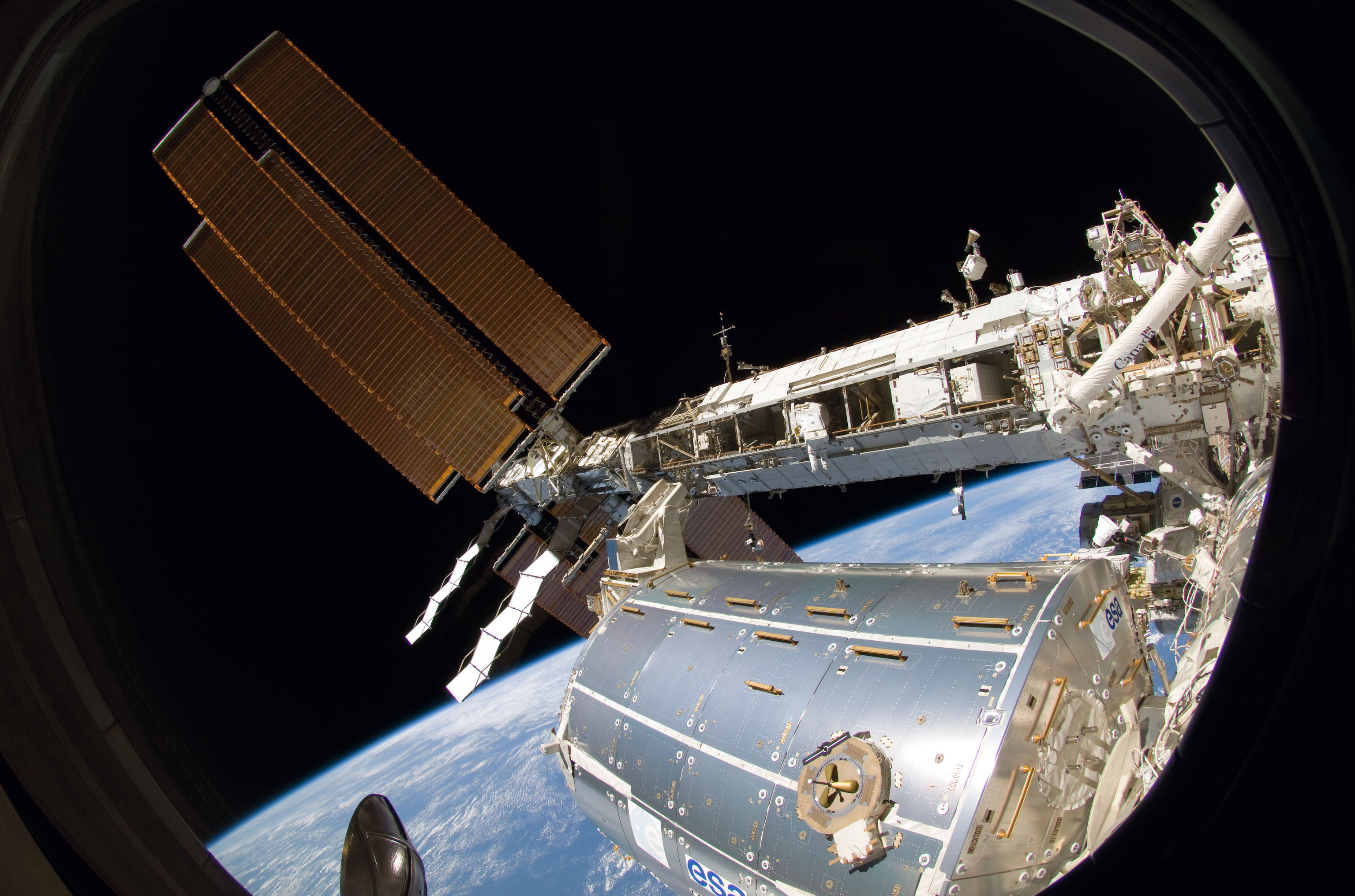 Astronaut Joseph Acaba, STS-119 mission specialist, participates in the mission's third scheduled session of extravehicular activity (EVA) as construction and maintenance continue on the International Space Station. During the six-hour, 27-minute spacewalk, Acaba and Richard Arnold (out of frame), mission specialist, helped robotic arm operators relocate the Crew Equipment Translation Aid (CETA) cart from the Port 1 to Starboard 1 truss segment, installed a new coupler on the CETA cart, lubricated snares on the "B" end of the space station's robotic arm and performed a few "get ahead" tasks.